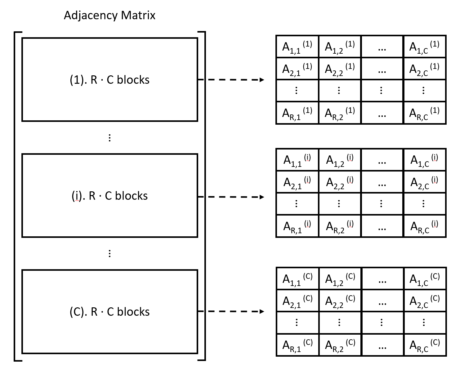 An graphic explanation of how adjacency matrix is divided in 2-demension